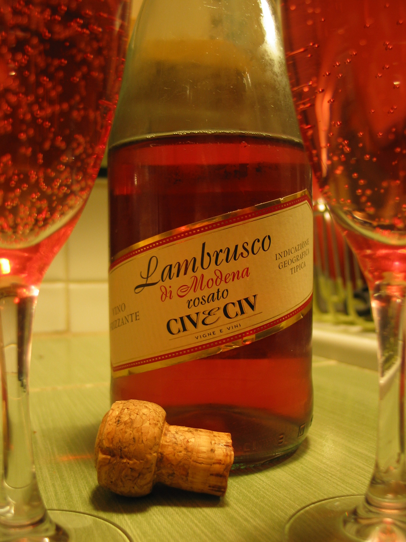 A bottle of the rosé version of Lambrusco (Italian wine).